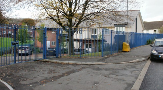 Ty Nant, Ringland Circle, Newport Ty Nant provides a purpose-built supported-living service for six adults in Newport with autism, learning disabilities and challenging behaviour. Each of the tenants has their own flat and use of a shared area for socialising. Ty Nant uses modern SMART technology, autism-friendly design features and an autism-specific model of care to allow tenants to have more control over their lives.